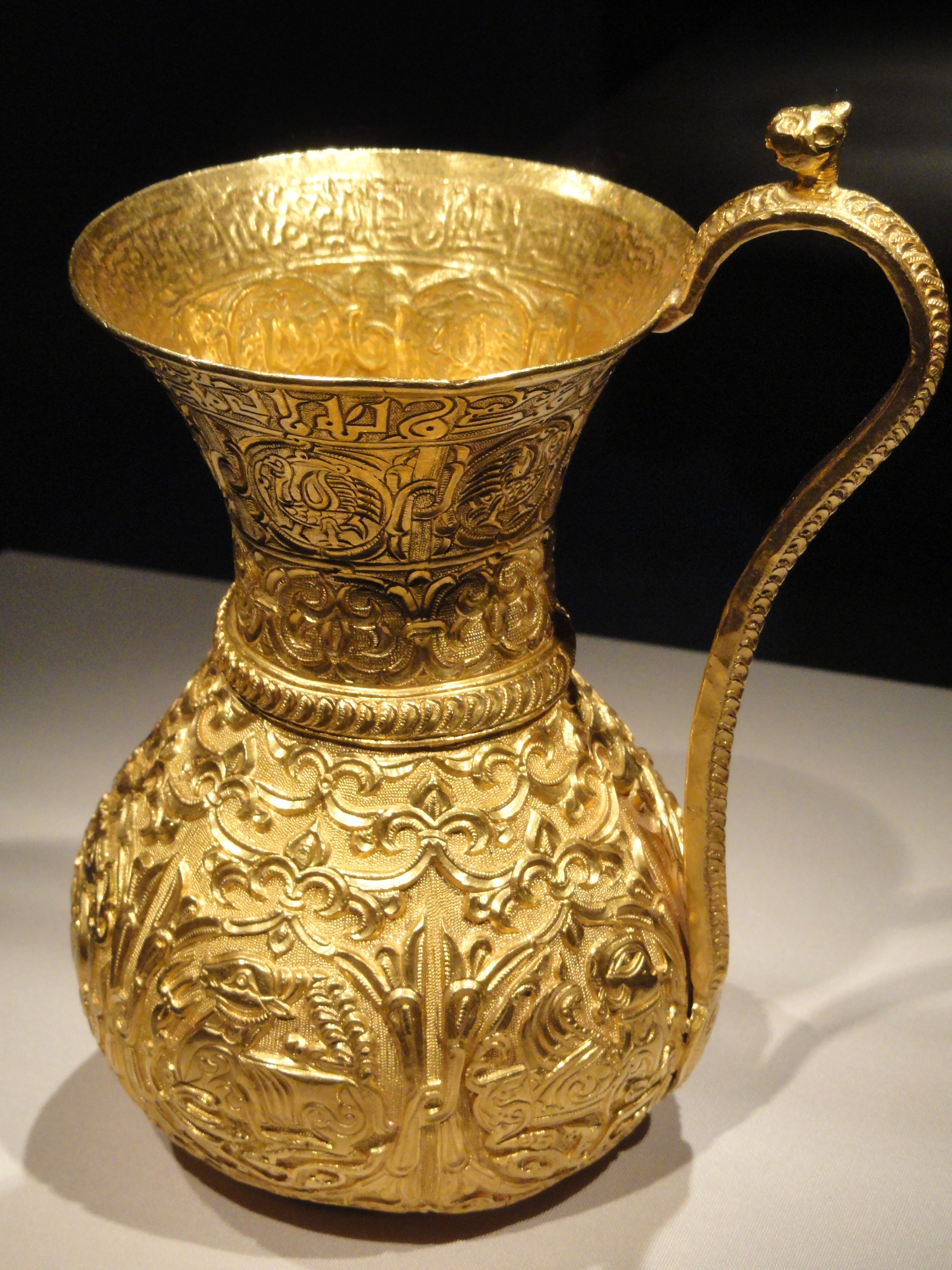 Exhibit in the Arthur M. Sackler Gallery, Washington, DC, USA. This artwork is old enough so that it is in the public domain.